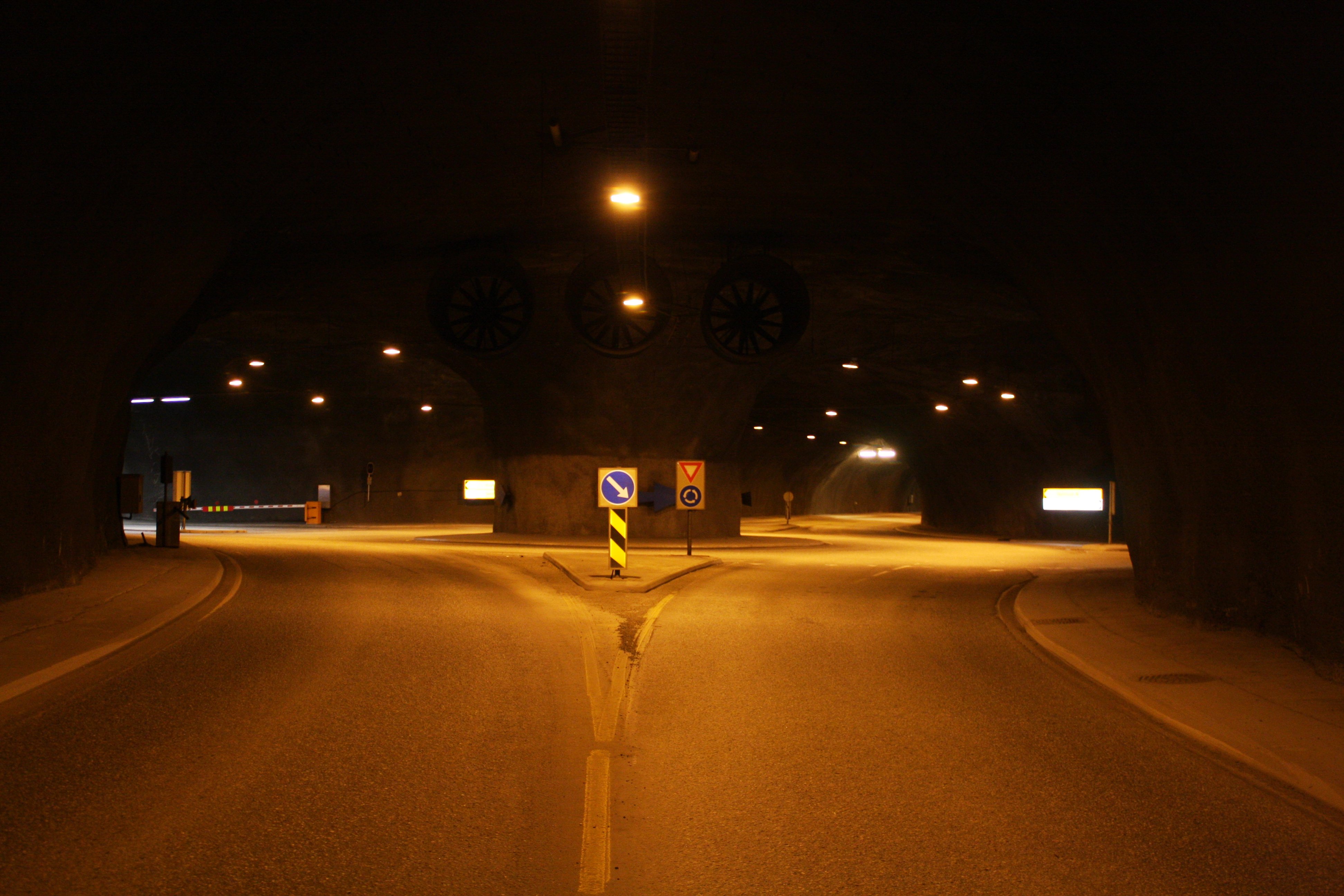 Roundabout inside the road tunnel Sentrumstangenten where Langnestunnelen goes out from to the left in the picture.